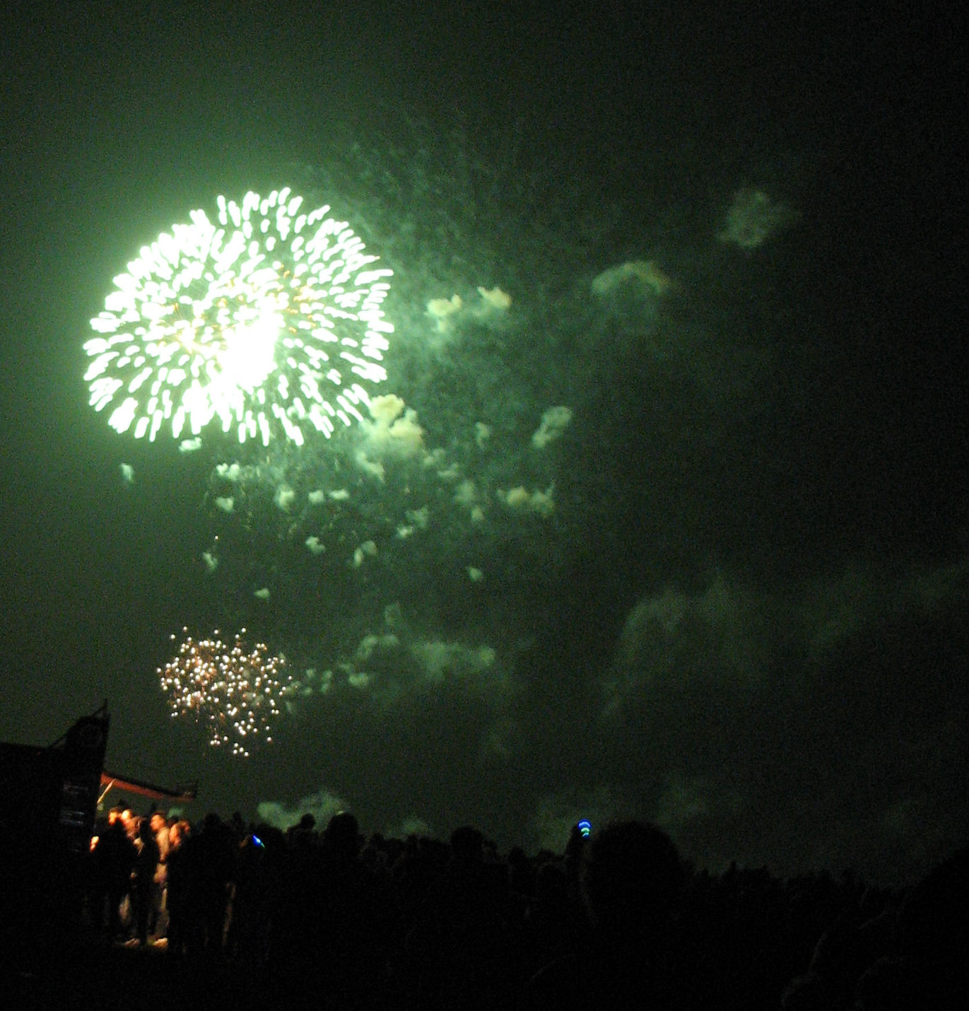 These fireworks were all photoed at a local firework display